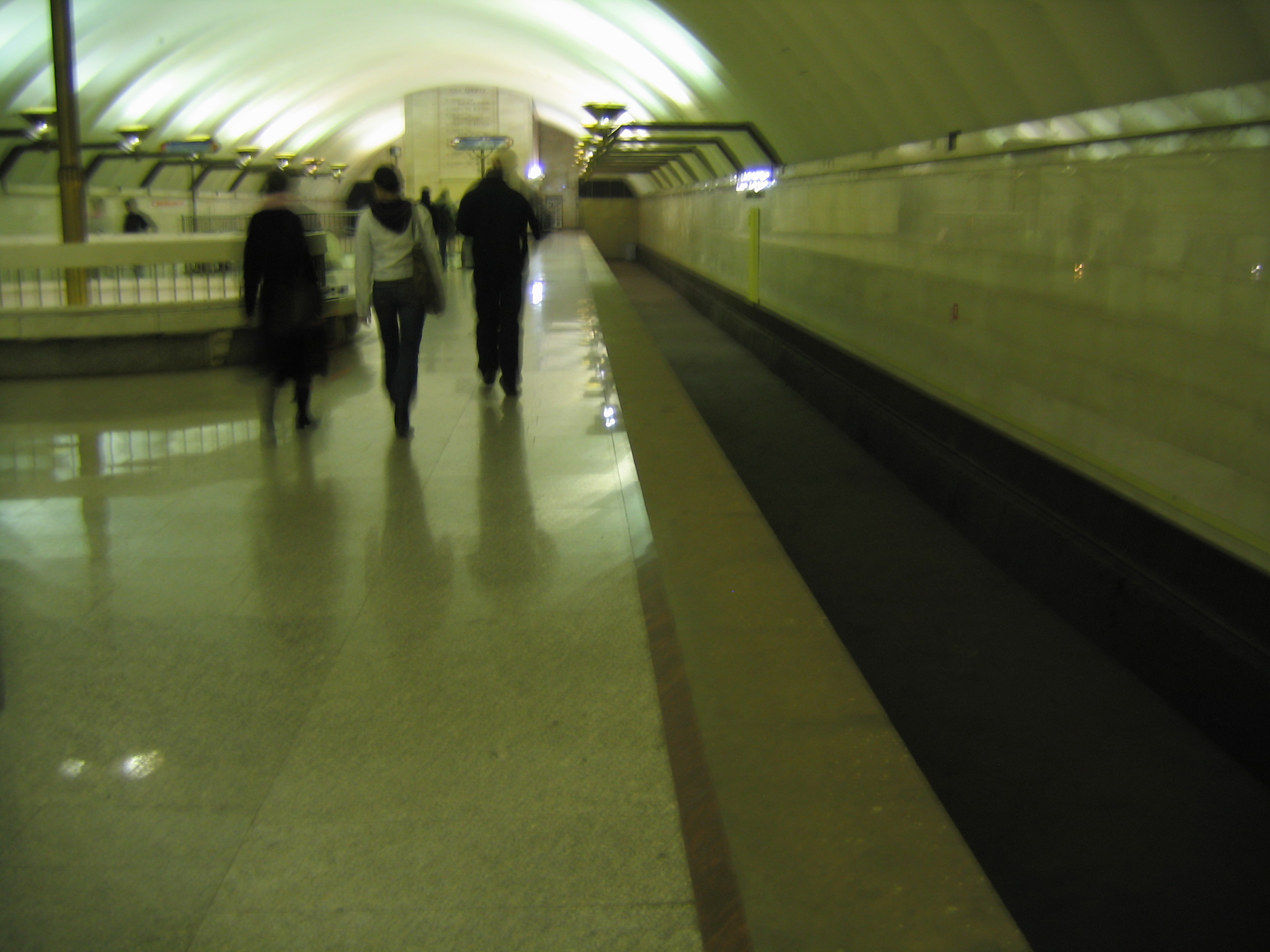 Sportivnaya subway station (upper level), St. Peterburg, Russia